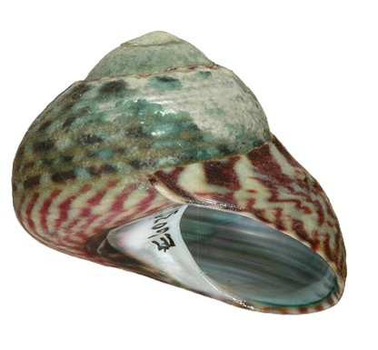 Shell of Oxystele variegata from Namibia, 5 km north of Swakopmund, diameter 22.2 mm (NMSA E6038). Lateral view.